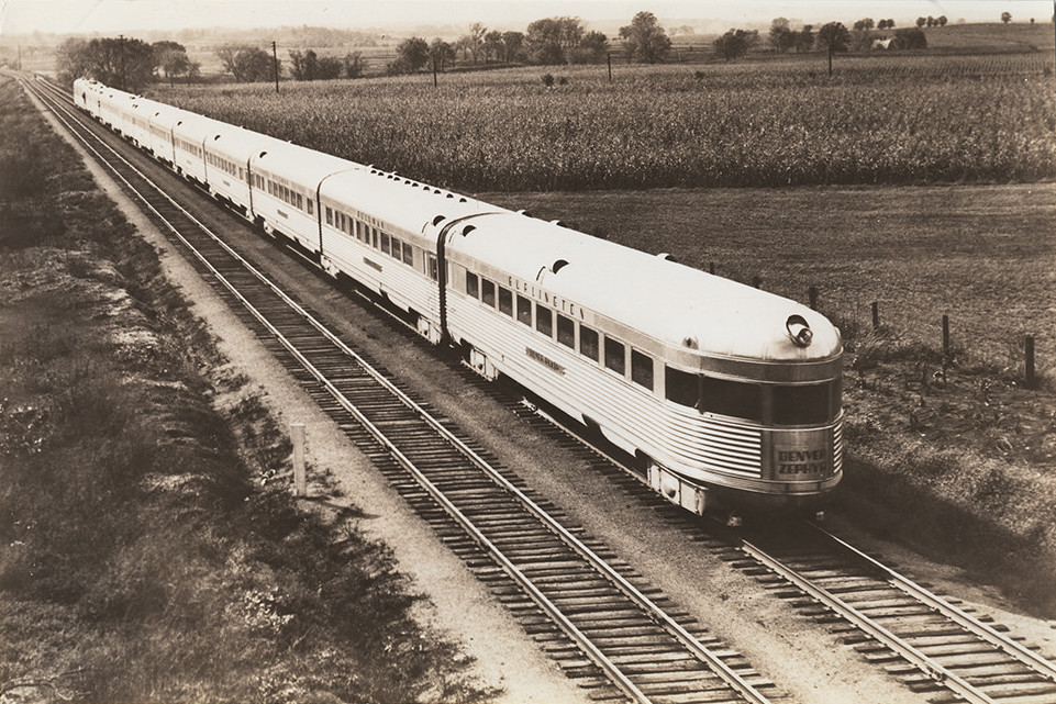 Title: Chicago, Burlington & Quincy R.R., Original 'Denver Zephyr' Train Creator: Unknown Date: ca. 1936 Part of: Everett L. DeGolyer Jr. collection of United States railroad photographs Physical Description: 1 photographic print: gelatin silver; 16 x 23 cm File: ag1982_0232_cbq_car_00230_03_opt.jpg Rights: Please cite DeGolyer Library, Southern Methodist University when using this file. A high-resolution version of this file may be obtained for a fee. For details see the web page. For other information, . For more information, see: Railroads: Photographs, Manuscripts, and Imprints